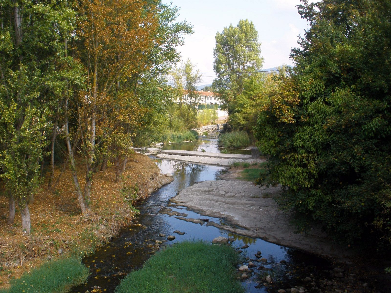 El Nervión a su paso por Amurrio (Álava, País Vasco, España)